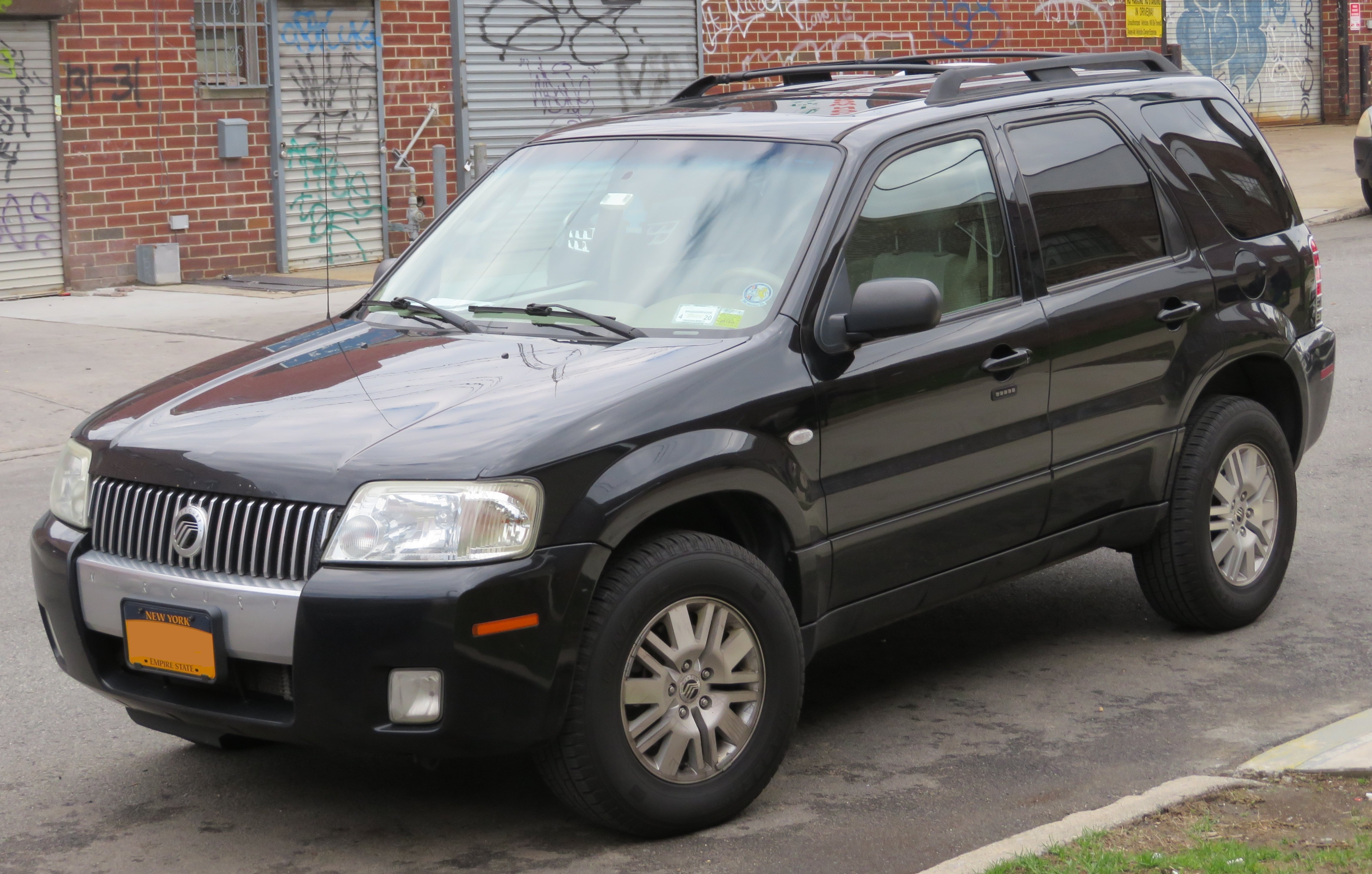 In Queens, New York